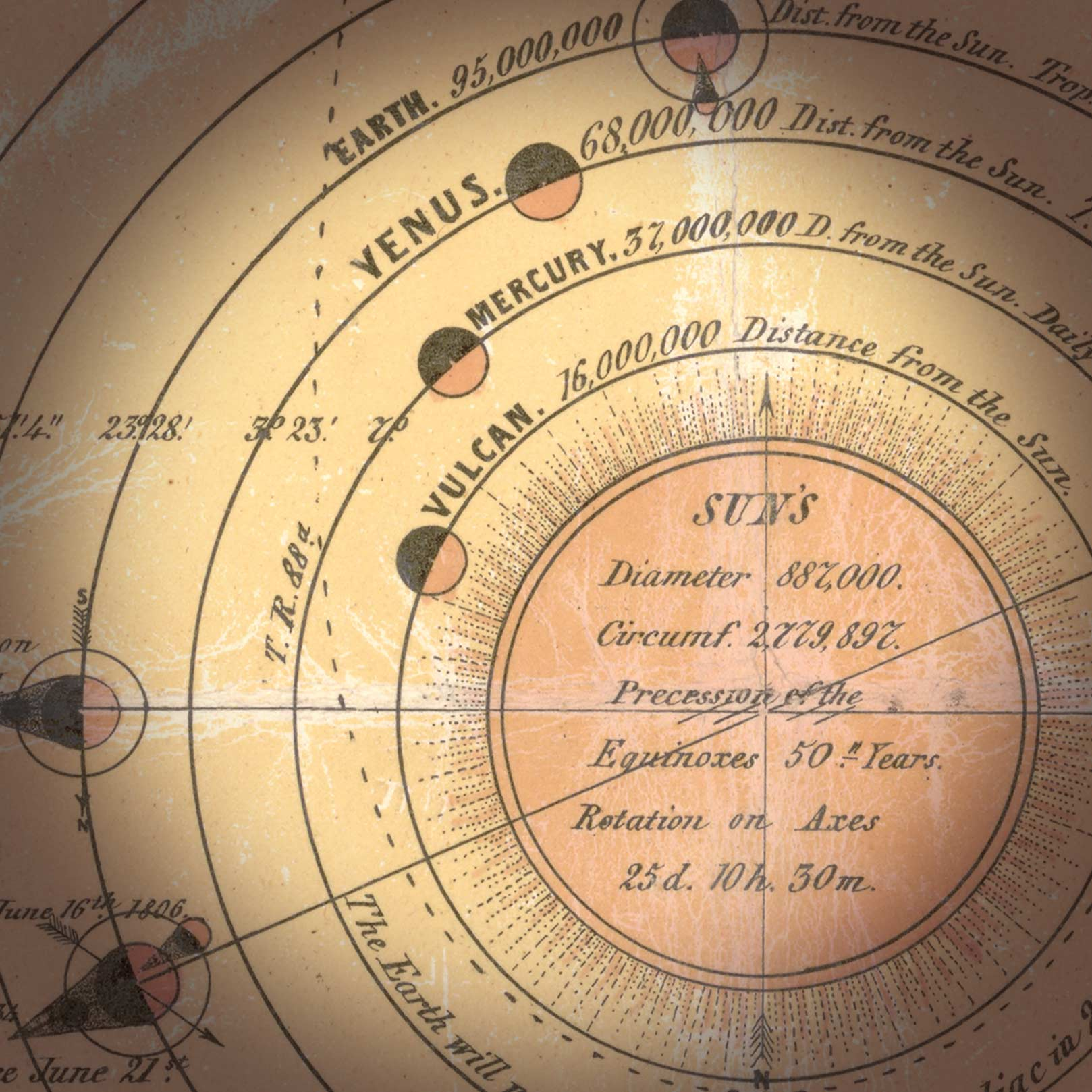 1846 lithography about the solar system. Detail: The hypothetical planet Vulcan circling the sun at close distance.